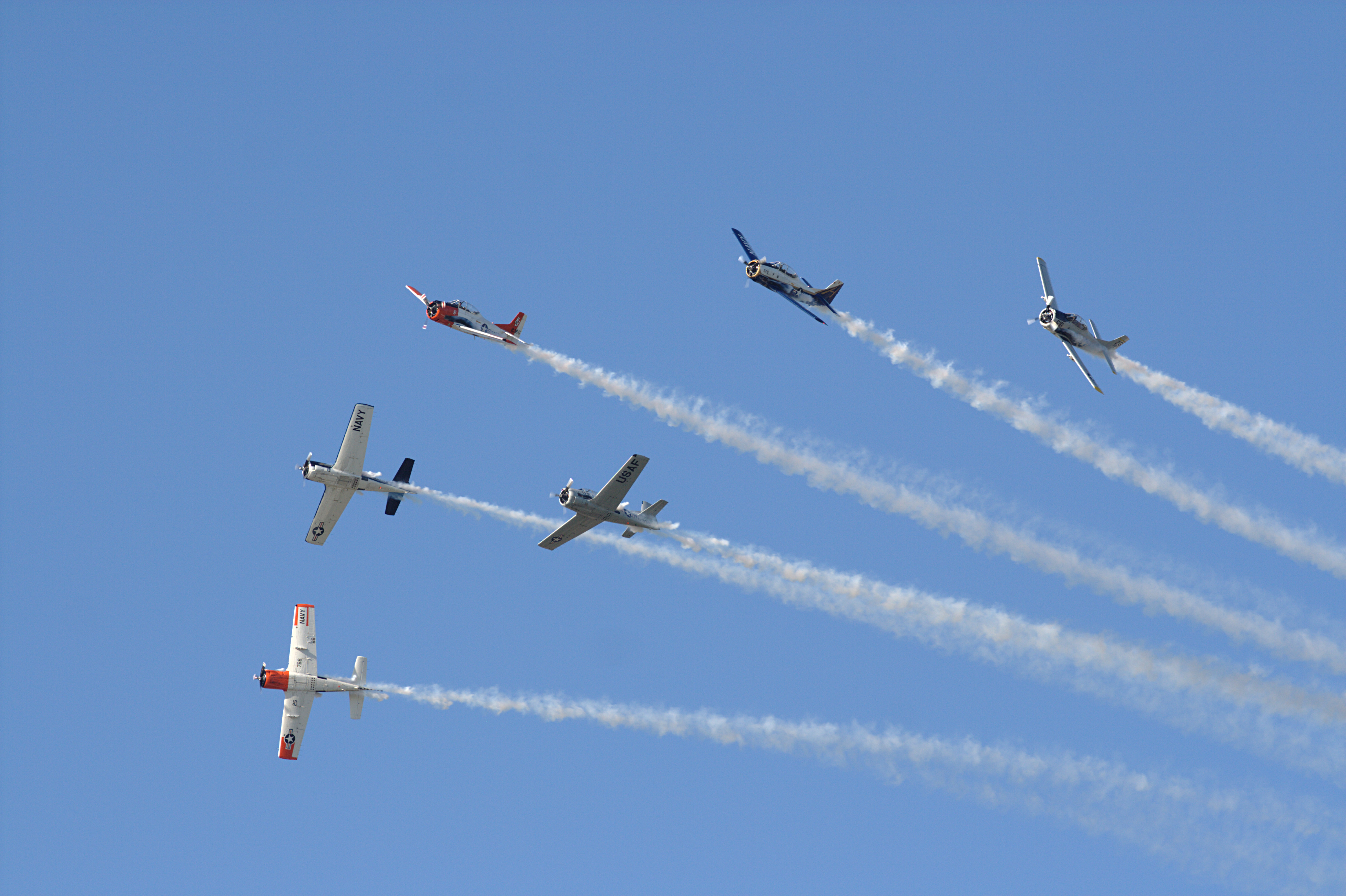 Break